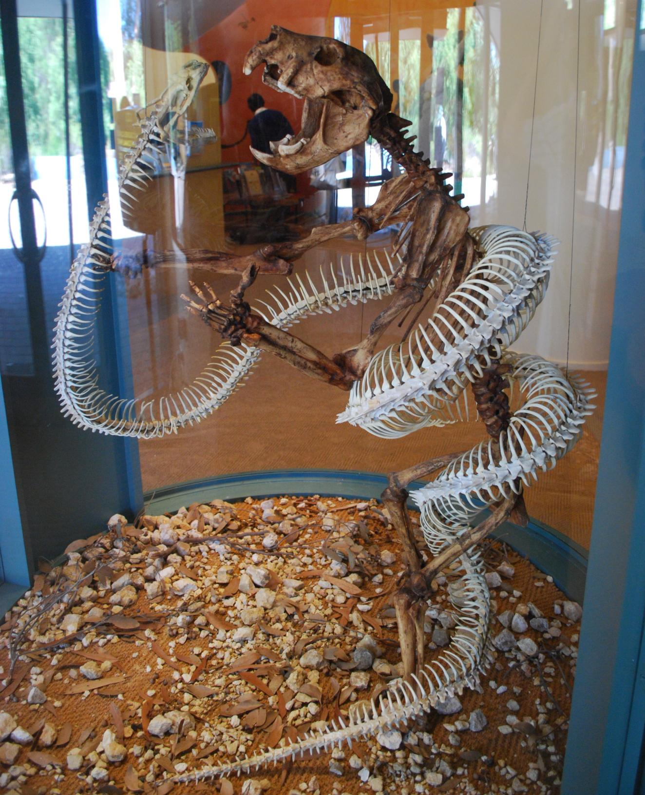 Naracoorte Caves National Park - wikipedia - Australian Fossil Mammal Site - Naracoorte - World Heritage - South Australia Both the Naracoorte and Riversleigh sites provide evidence separately of key stages in the evolution of the fauna of Australia - the world's most isolated continent. They are outstanding for the extreme diversity and the quality of preservation of their fossils and help us to understand the history of mammal lineages in modern Australia. The Naracoorte Fossil Mammal Site was inscribed on the World Heritage List in 1994. The Naracoorte Fossil Mammal Site was one of 15 World Heritage places included in the National Heritage List on 21 May 2007.